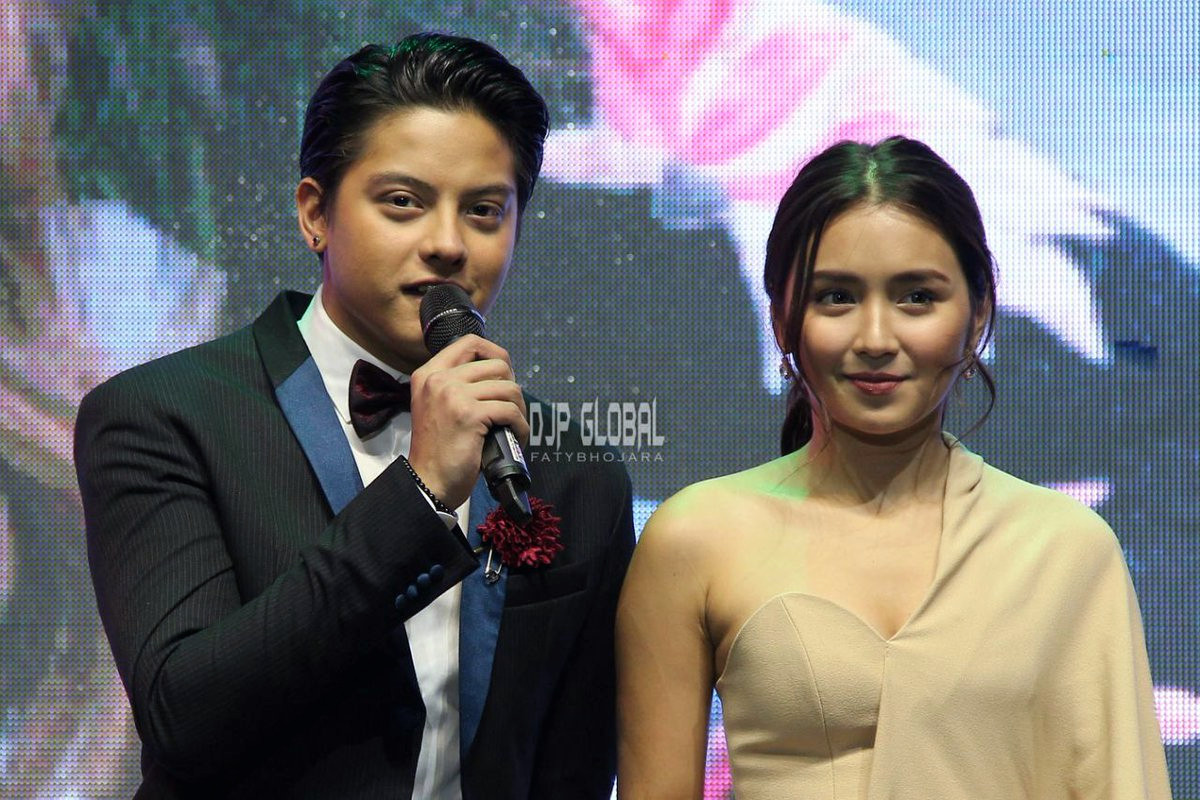 KathNiel at Celebrate Mega in Iceland 2016